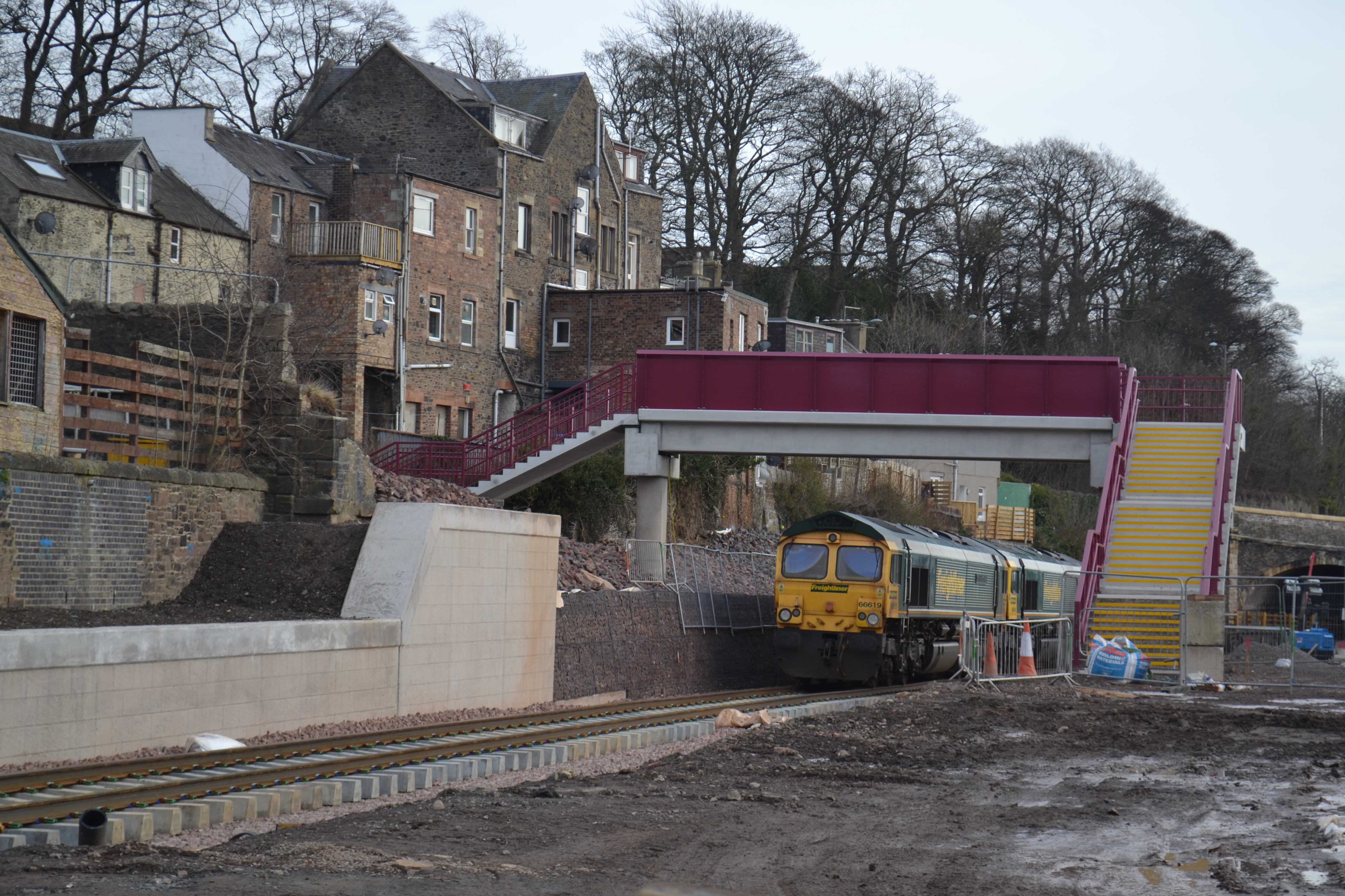 Borders Railway - February 2015 (4): Galashiels - Pedestrian footbridge joining Magdala Terrace with Low Buckholmside. The railway, at this point, is to the northwest of the new Galashiels station site. The footbridge allows foot traffic to reach a retail park, with B&Q, Carpet Right and other retailers.